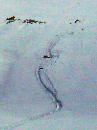 Nangpa La killings.